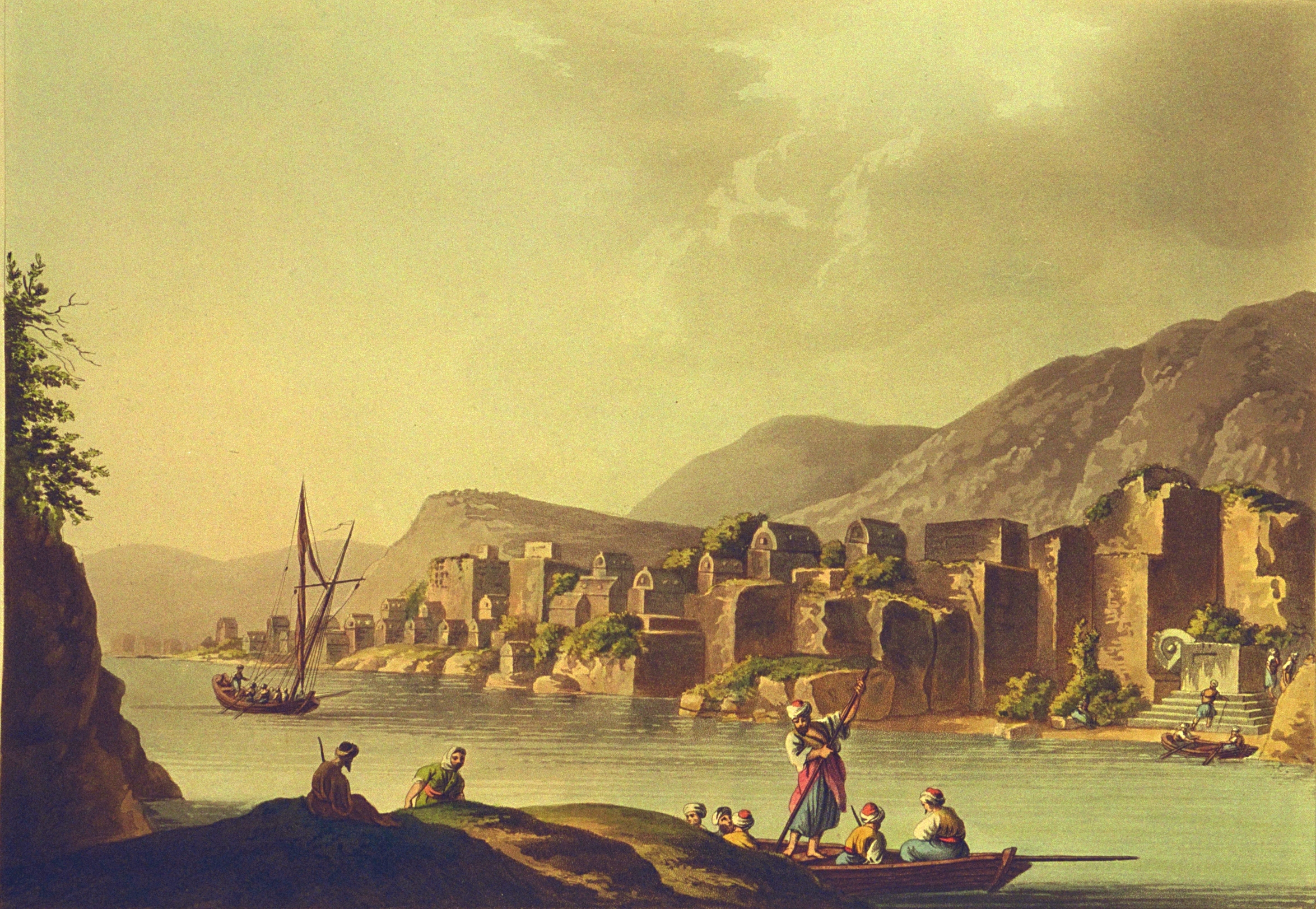 View of the port and the city of Constantinople (from Leander's Tower), Luigi Mayer.